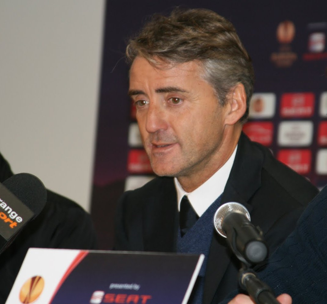 Roberto Mancini dealing with press Lech Poznań vs Manchester City FC, 4 November, 2010